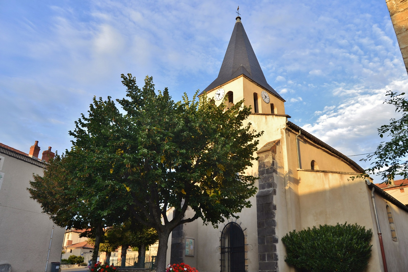 L'église